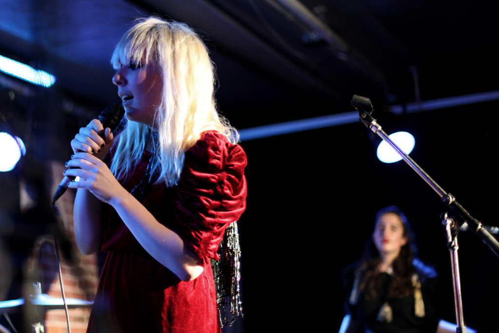 Live at Electric Owl, Vancouver.